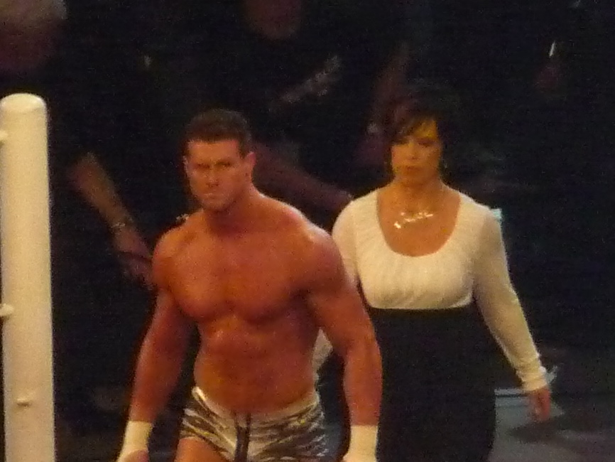 Dolph Ziggler (left) with Vickie Guerrero (right) in April 2011 at the WWE Raw tapings in the O2 Arena in London, England. Ziggler is sporting a new look, with short dark brown instead of his previous longer, blecahed blonde style.